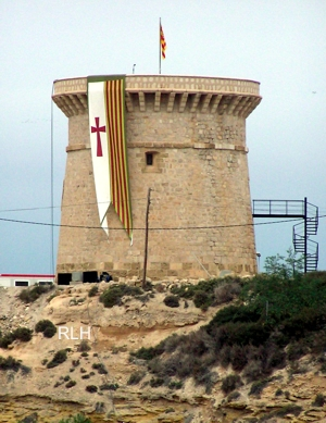 Watch Tower above El Campello Marina